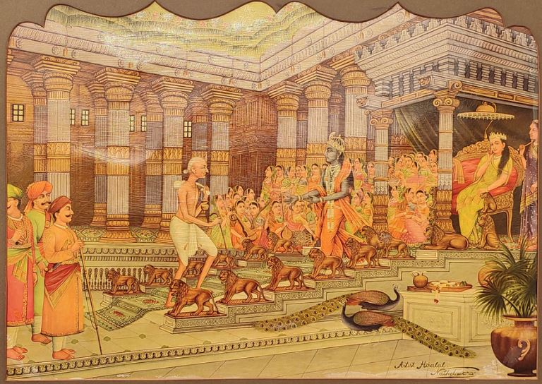 Krishna Sudama Hira Lal - Nathdwara Product Code: 12B_B-53 Condition: Good Availability: Available Size: 14x20 inches Medium: German Oleograph Year: 1920's A very beautiful Hindu religious oleograph. Published by: S.S.Brijbasi and sons, Bunder Road Karachi. Printed in Germany This is an original print, printed in 1920's. Please check the image of the art work prior to making your purchase, all the significant flaws such as tear marks, watermarks, stains or pinholes are noticeable in image, some less noticeable changes due to age and period can be inquired through mail.